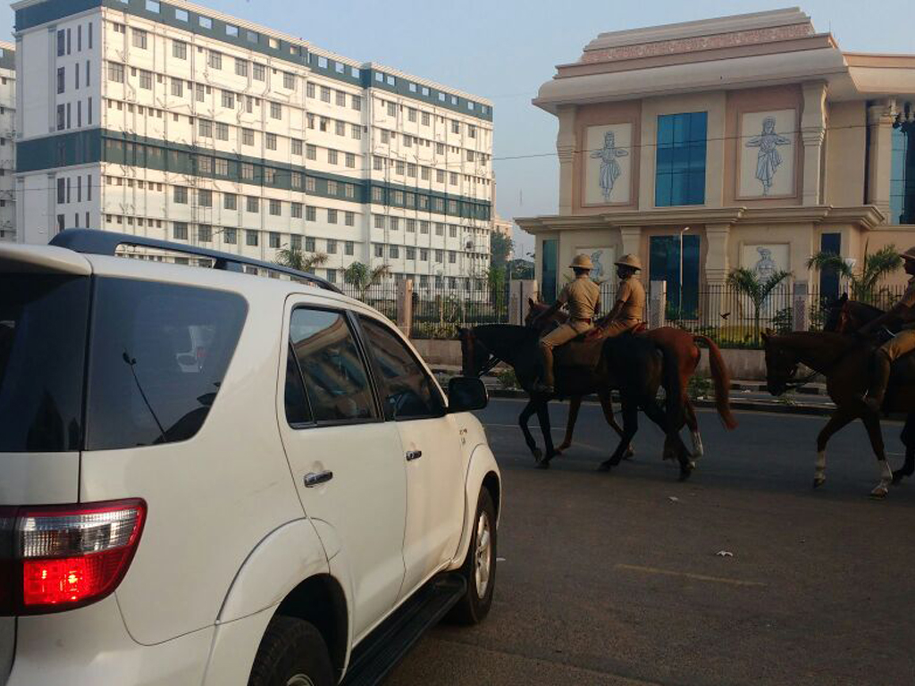 Wallajah road, Chennai, near Kalaivanar Arangam.